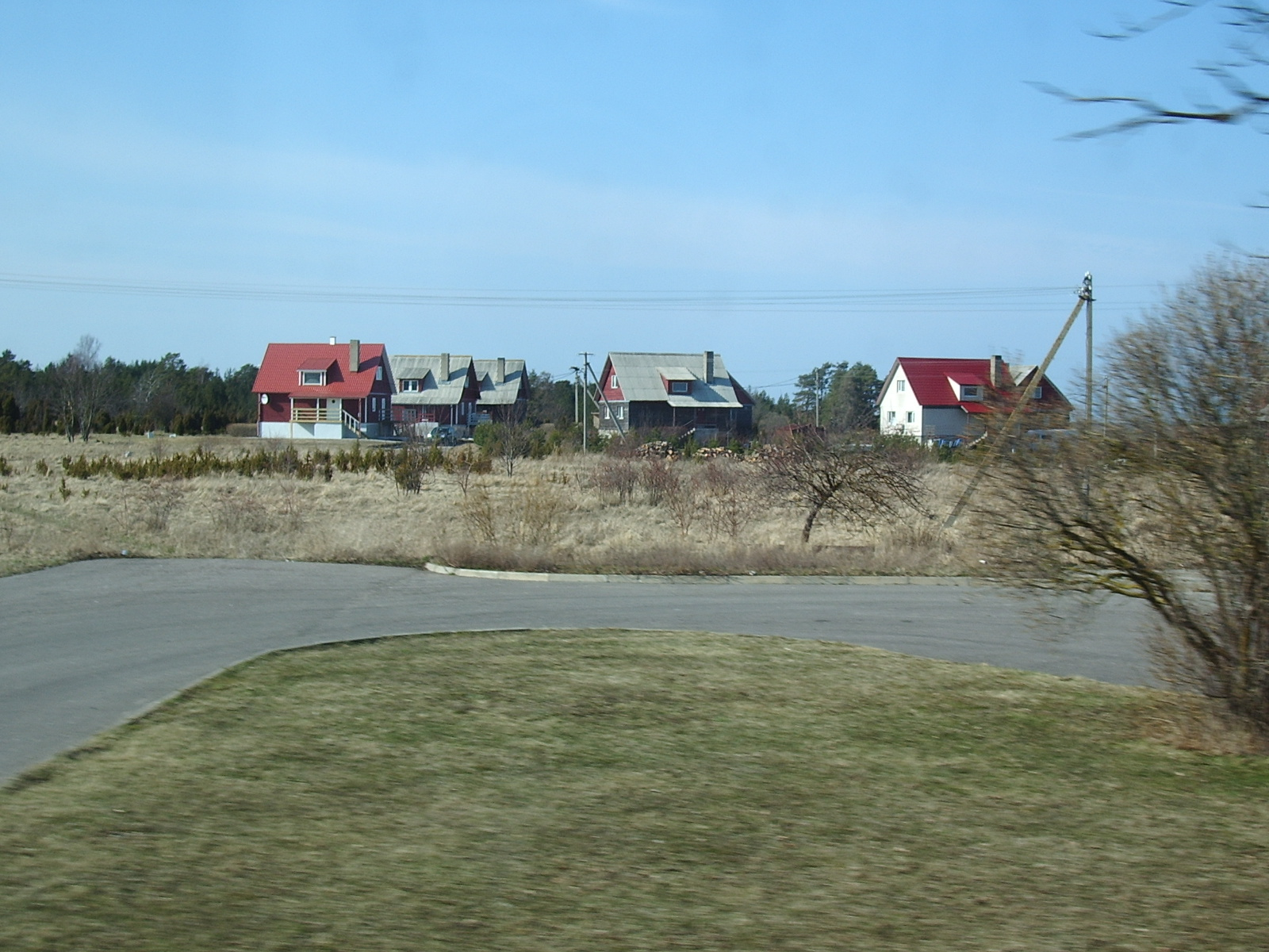 Newer houses in Kuivastu, Saare County, Estonia